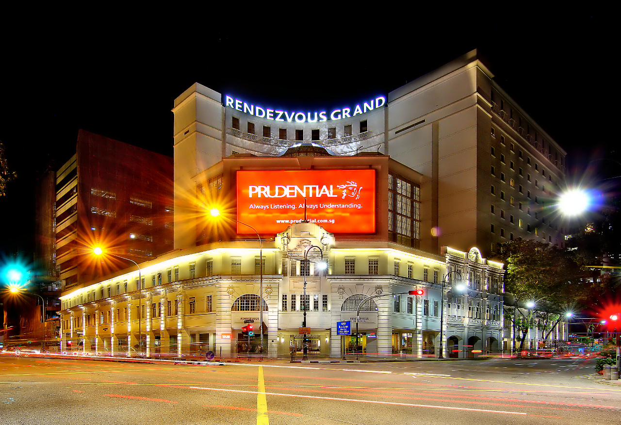 The Rendezvous Grand Hotel Singapore (formerly the Rendezvous Hotel Singapore), located on Bras Basah Road in the Museum Planning Area of Singapore across from the Singapore Management University. It is part of a chain of Rendezvous Hotels owned by the Straits Trading Company. It is located on the historic site of the Hock Lock Kee Restaurant, which is still located in the hotel complex. (DRI, 10 exp; Canon 650D Tokina 11mm-16mm.)